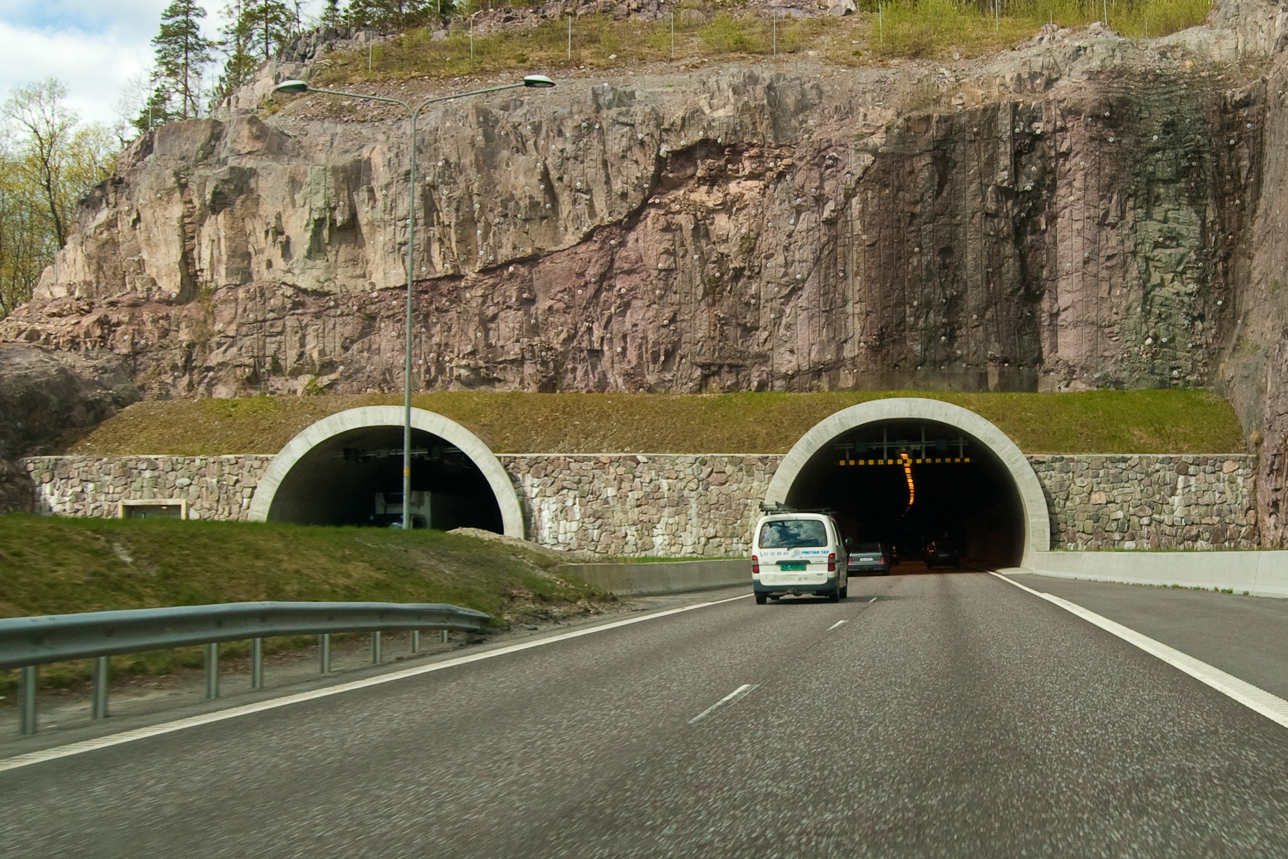 Steinbjørnrød tunnel on E18 in Re, Vestfold, Norway. Seen from the south.